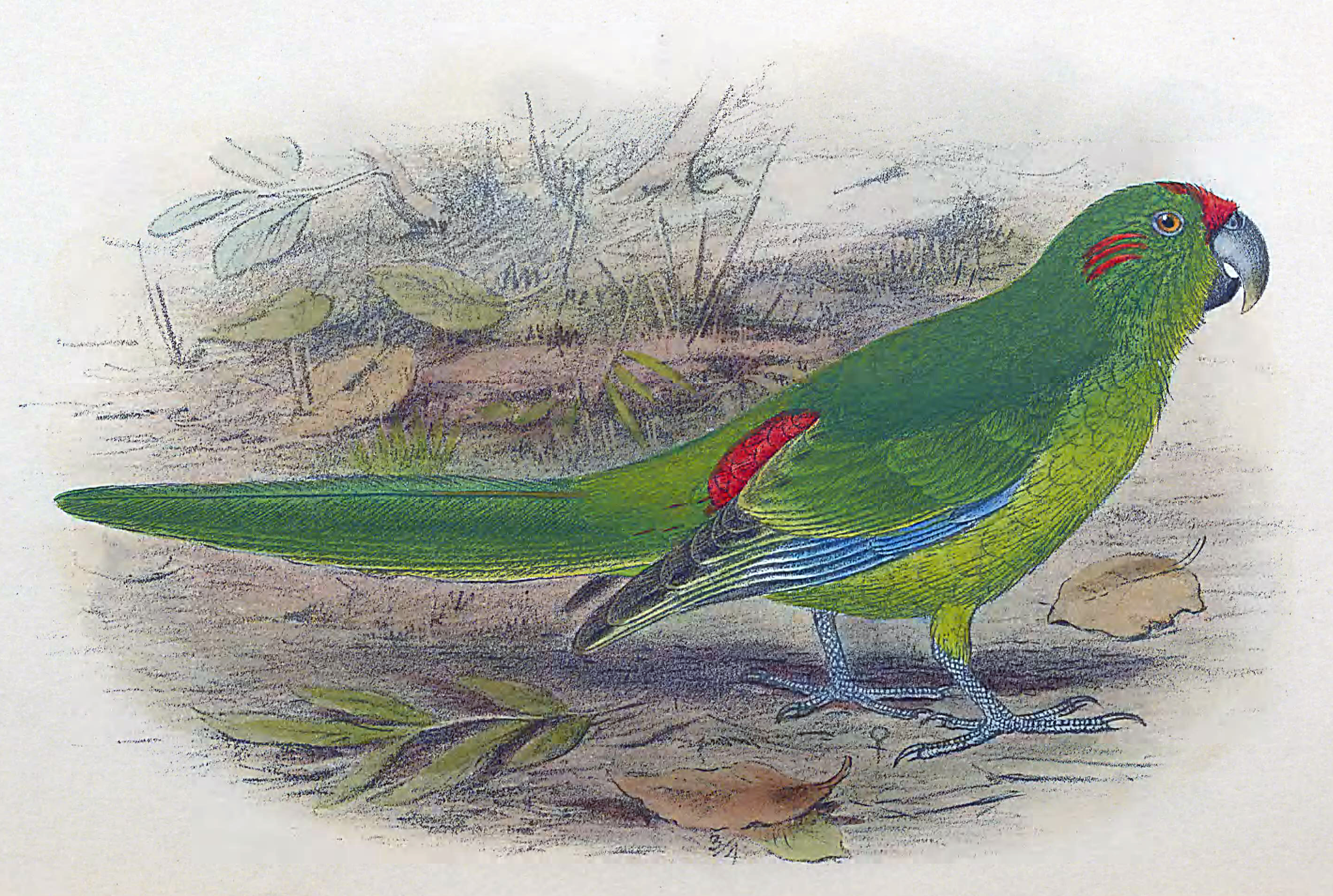 Hand coloured lithograph (circa 1928) showing (Cyanorhamphus subflavescens) Which is now a synonym of the Lord Howe Island Red-fronted Parakeet (Cyanoramphus novaezelandiae subflavescens) From The Birds of Australia (1910-28) by Gregory Macalister Mathews (1876-1949) Artwork by Henrik Gronvold (1858–1940) a Danish bird illustrator.